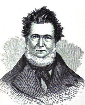 This is a drawing of Republic of Texas interim president David G. Burnett